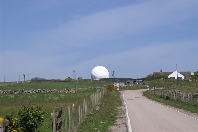 Remote Radar Head Nr Longhaven.